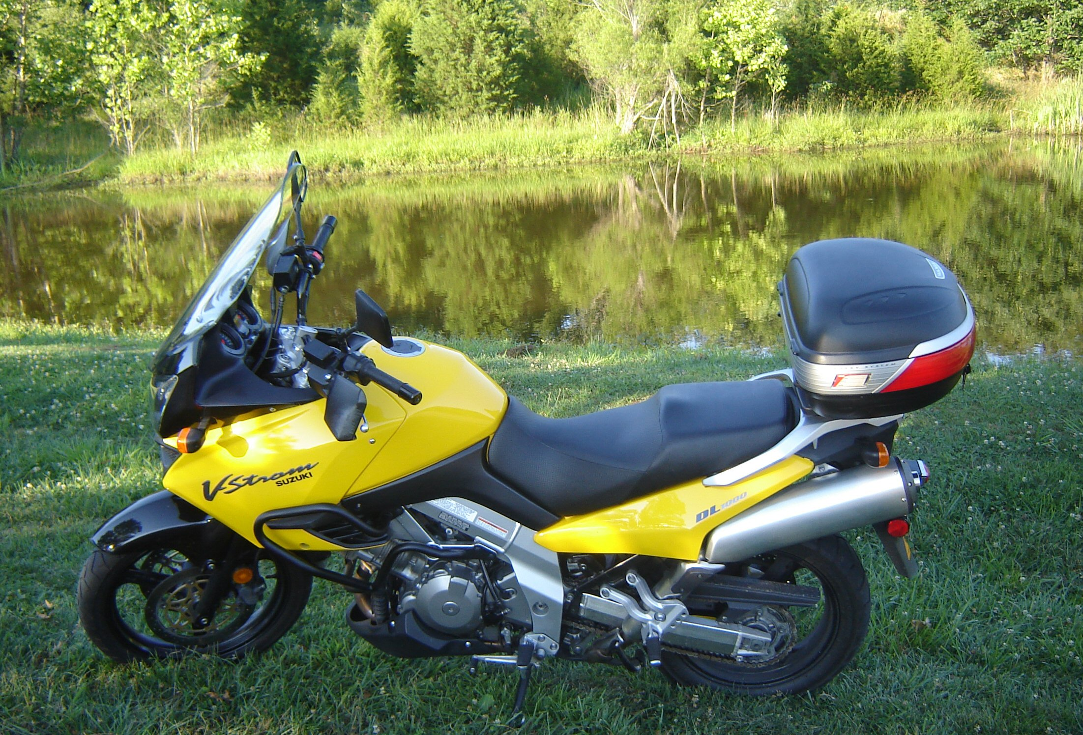 2003 Suzuki V-Strom DL1000